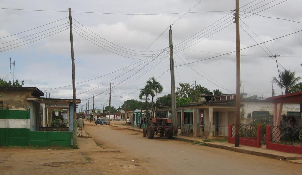 A view of a rural road in Perico (Matanzas Province, Cuba). The street is just nearby the central gas station on the Carretera Central.